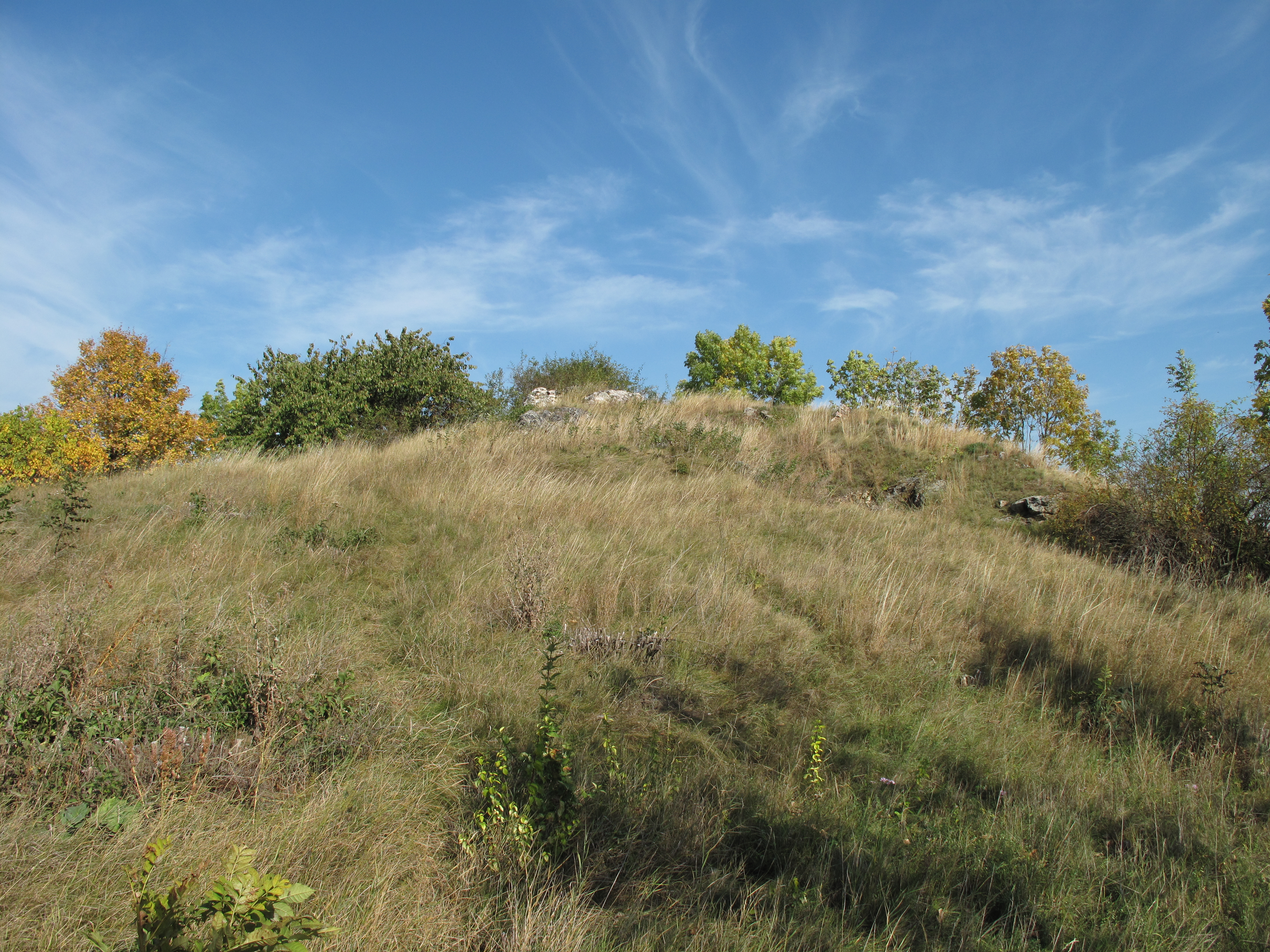 Top of Pazderna natural monument, Praha-Západ District, Czech Republic.